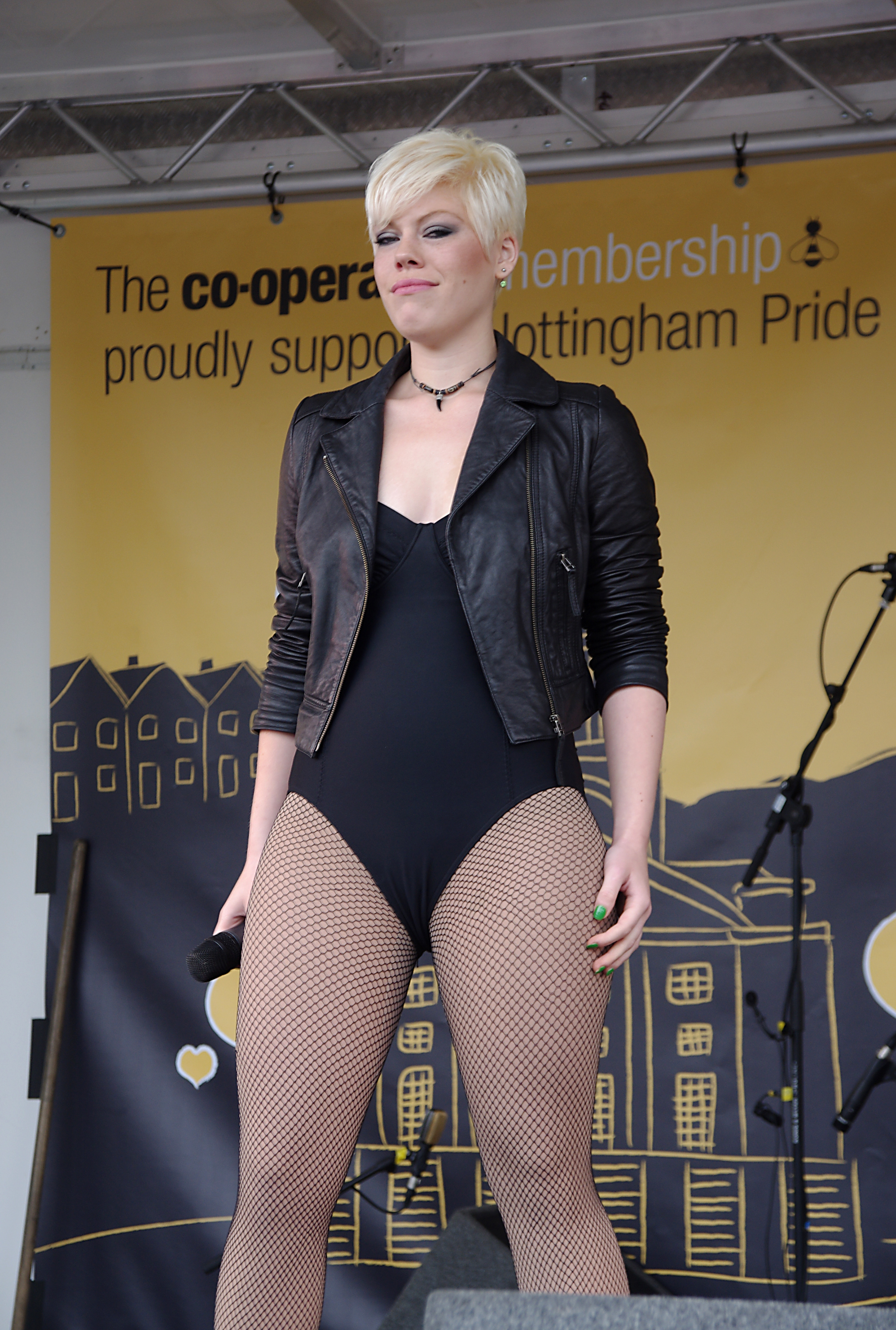 Zoe Alexander performs as a Pink tribute act at Nottingham Pride 2010.